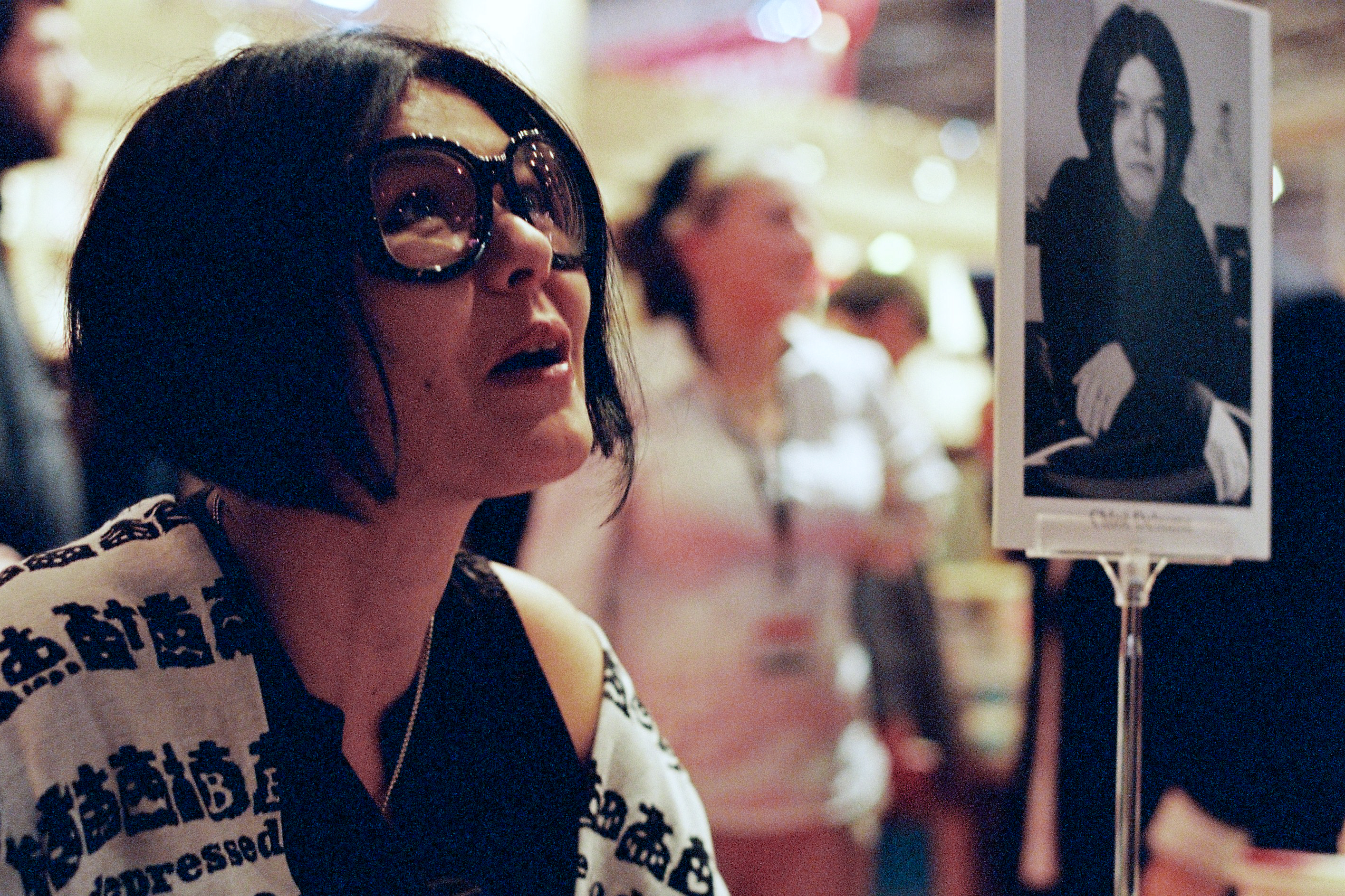 french author